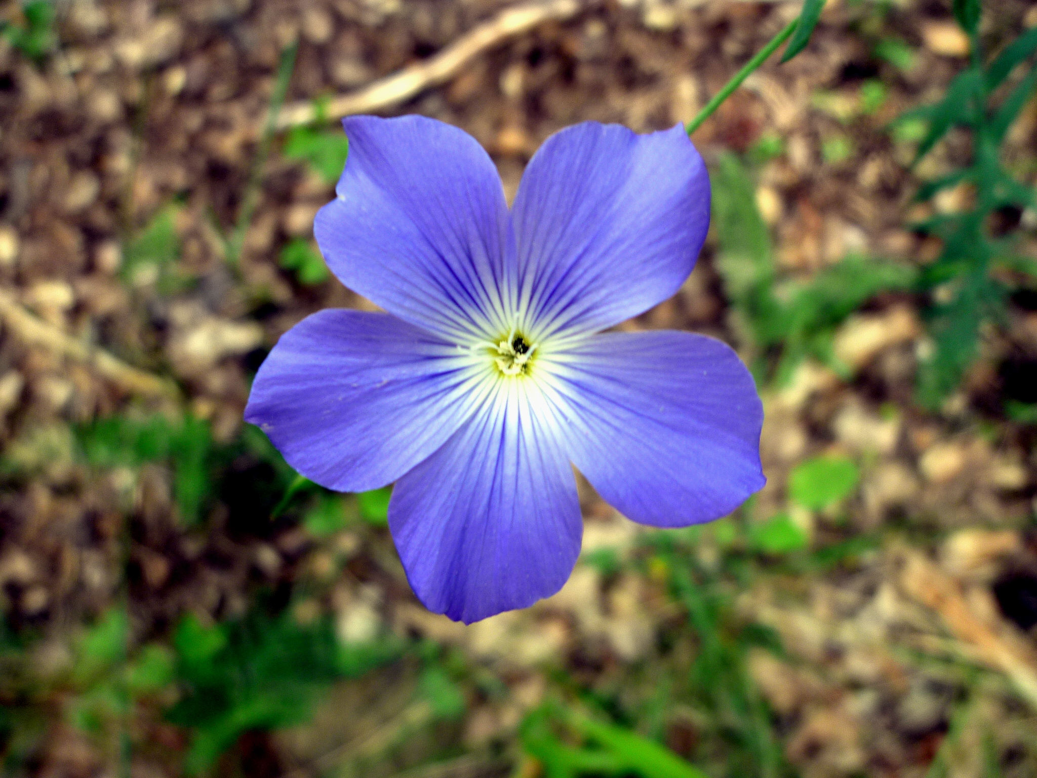 Linum narbonense. In Guixers (Solsonès - Catalunya), to 900 m. altitude